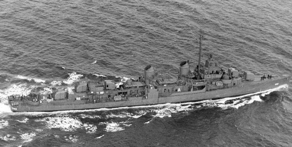 The U.S. Navy destroyer USS Melvin (DD-680) underway, circa 1943.